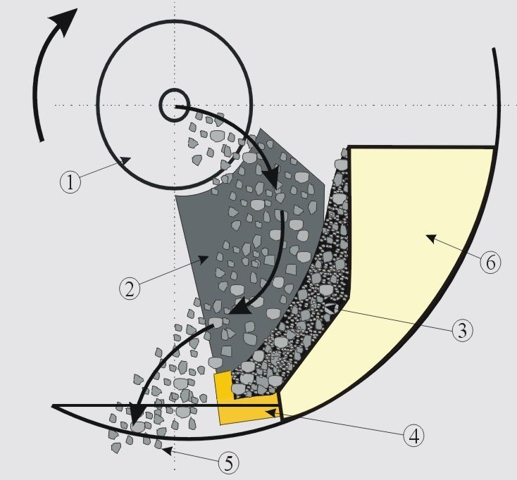 A principal scheme of an accelerator for vertical shaft impact (VSI) crusher